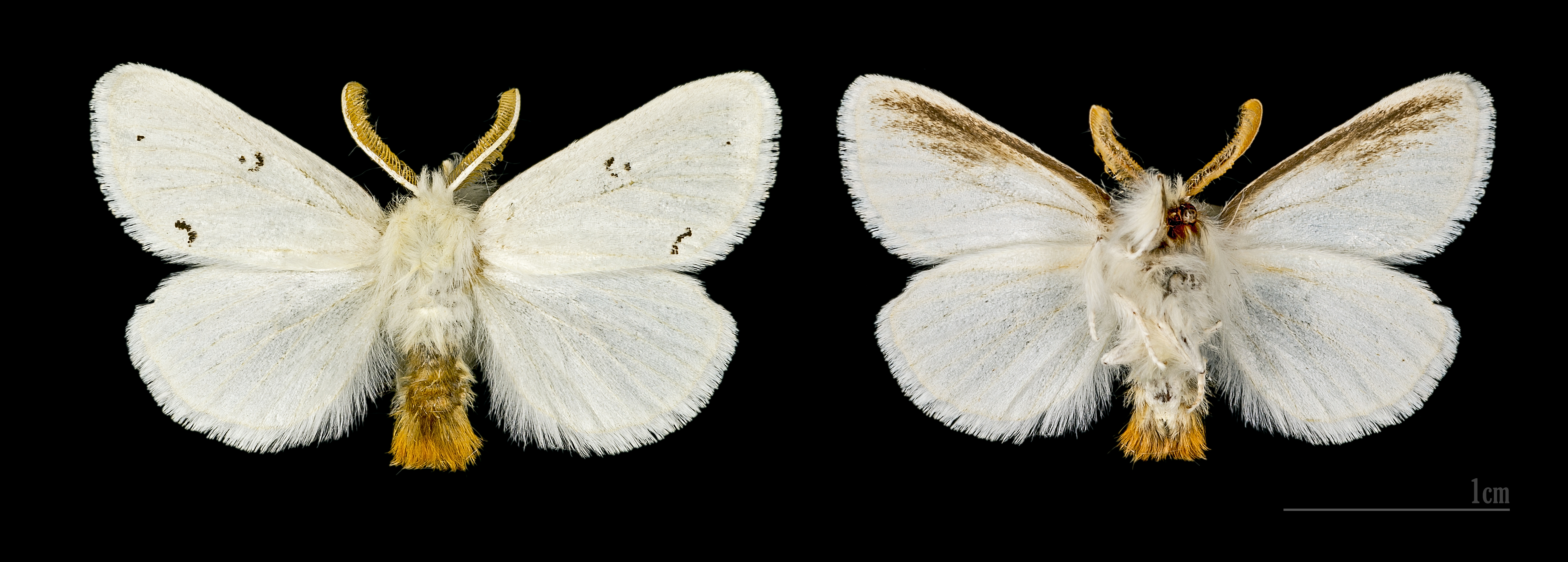 Brown-tail. Two views of same specimen